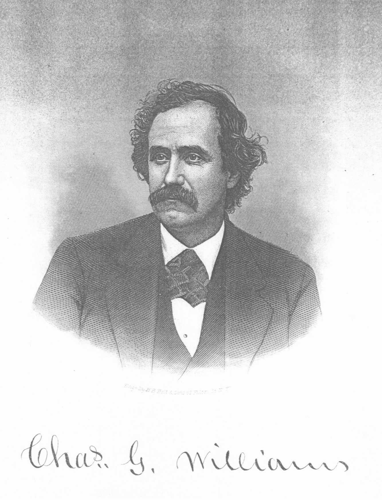 Charles Grandison Williams woodcut